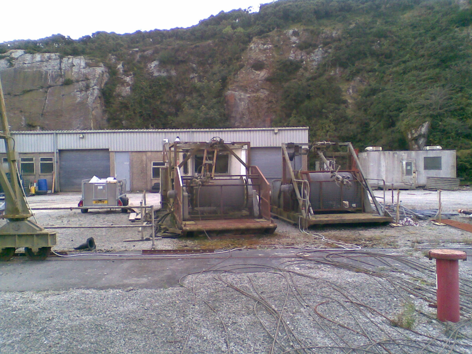 Rosemanowes Quarry, Hernis, Cornwall, site of the Hot Dry Rocks project. Winches.